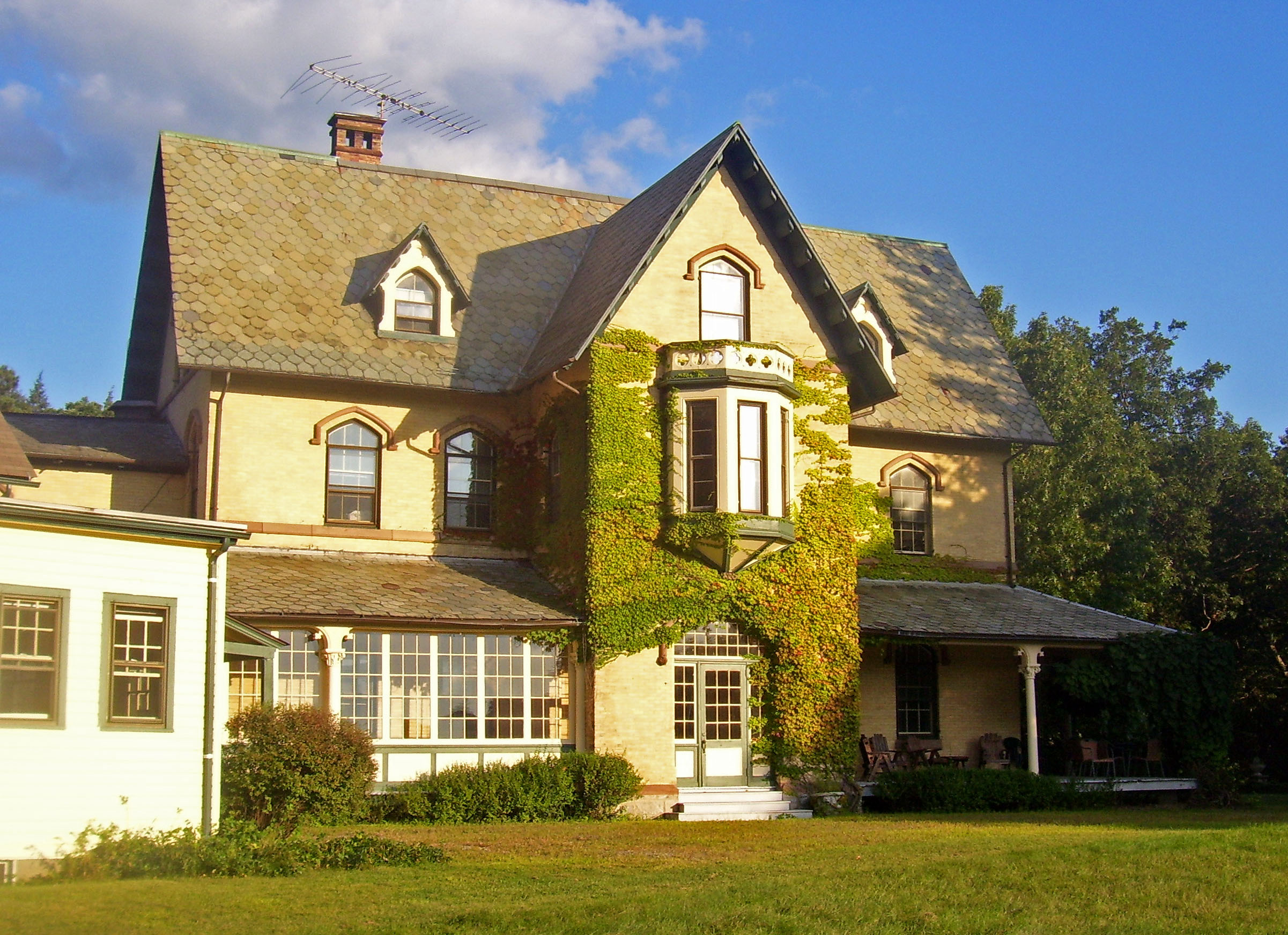 Woodlawn, Garrison, NY, USA. 1854 estate by Richard Upjohn; now home of the Hastings Center